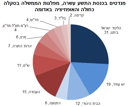 Seats in the 19th Israeli Knesset, coalition vs. opposition